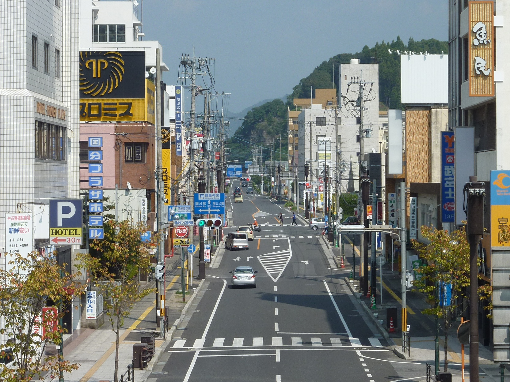 Kagoshima Prefectural Road No.60:Kokubu-Kirishima Line (Central Kirishima City, Kagoshima, Japan)